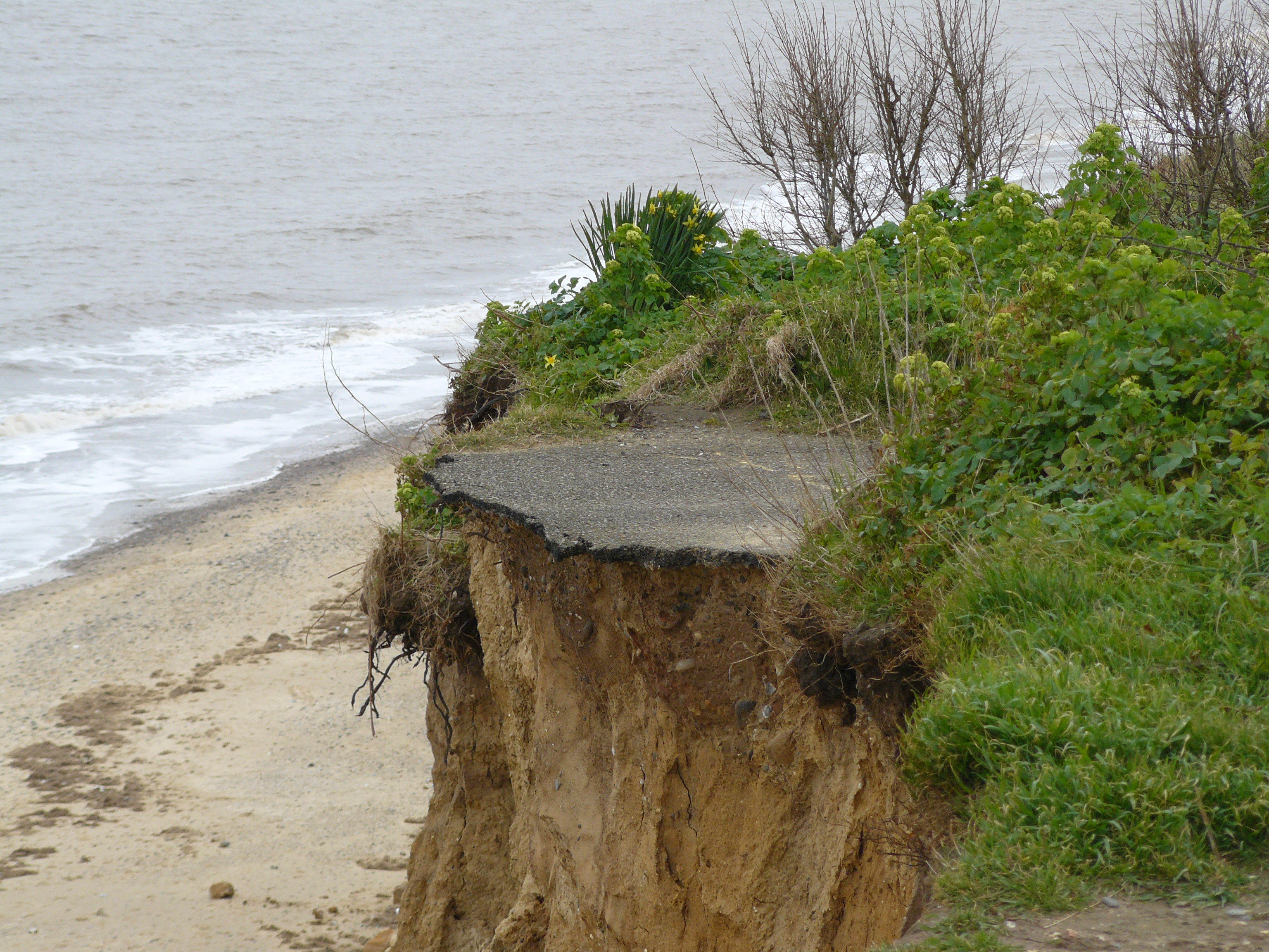 In the Suffolk village of Covehithe the road goes straight over the edge of the cliff!